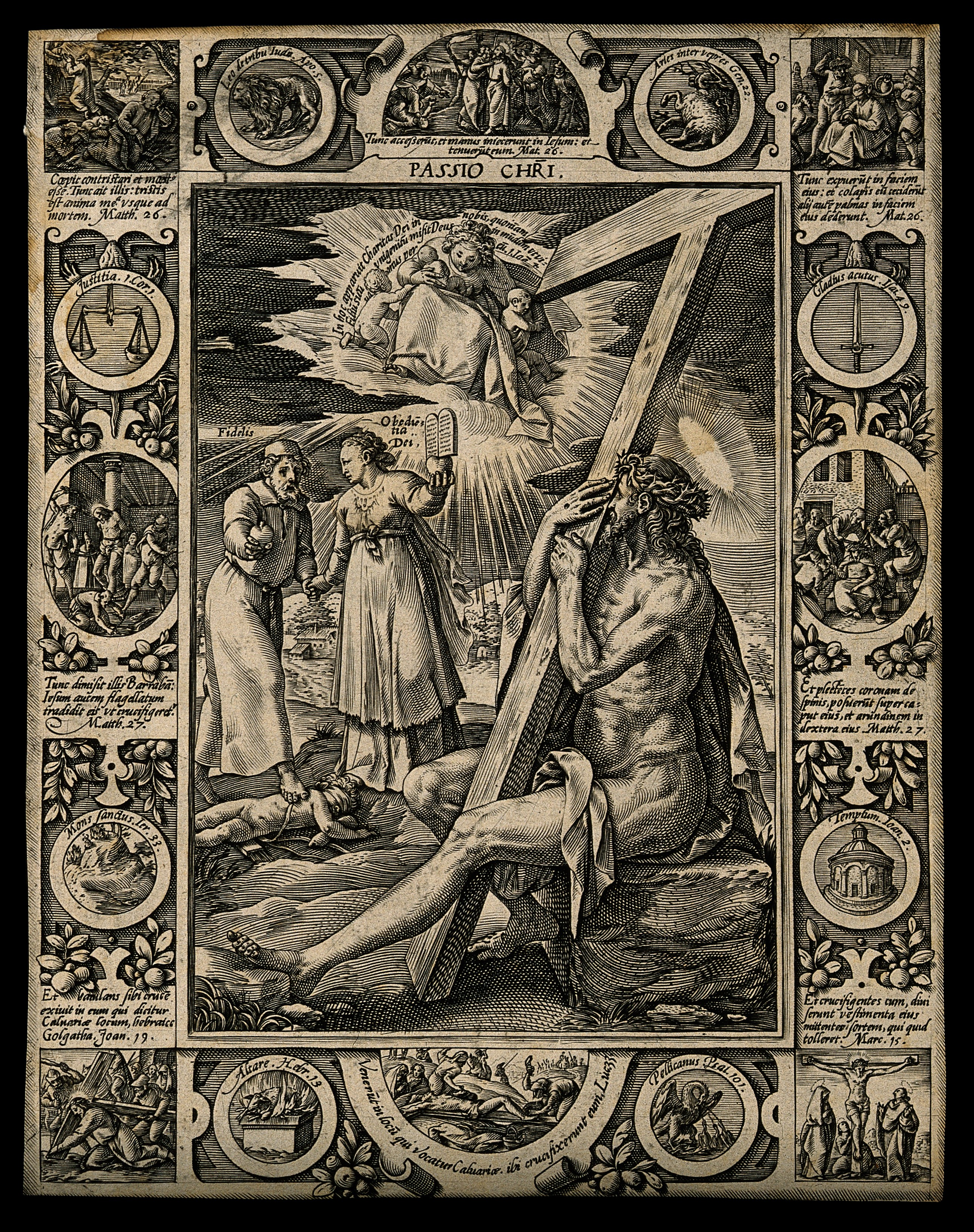 A husband and wife hold an apple and the table of the law before Christ, who is holding the cross; surrounded by depictions of the Passion. Line engraving by H. Goltzius, 1578. Iconographic Collections Keywords: Hendrik Goltzius; Jesus Christ